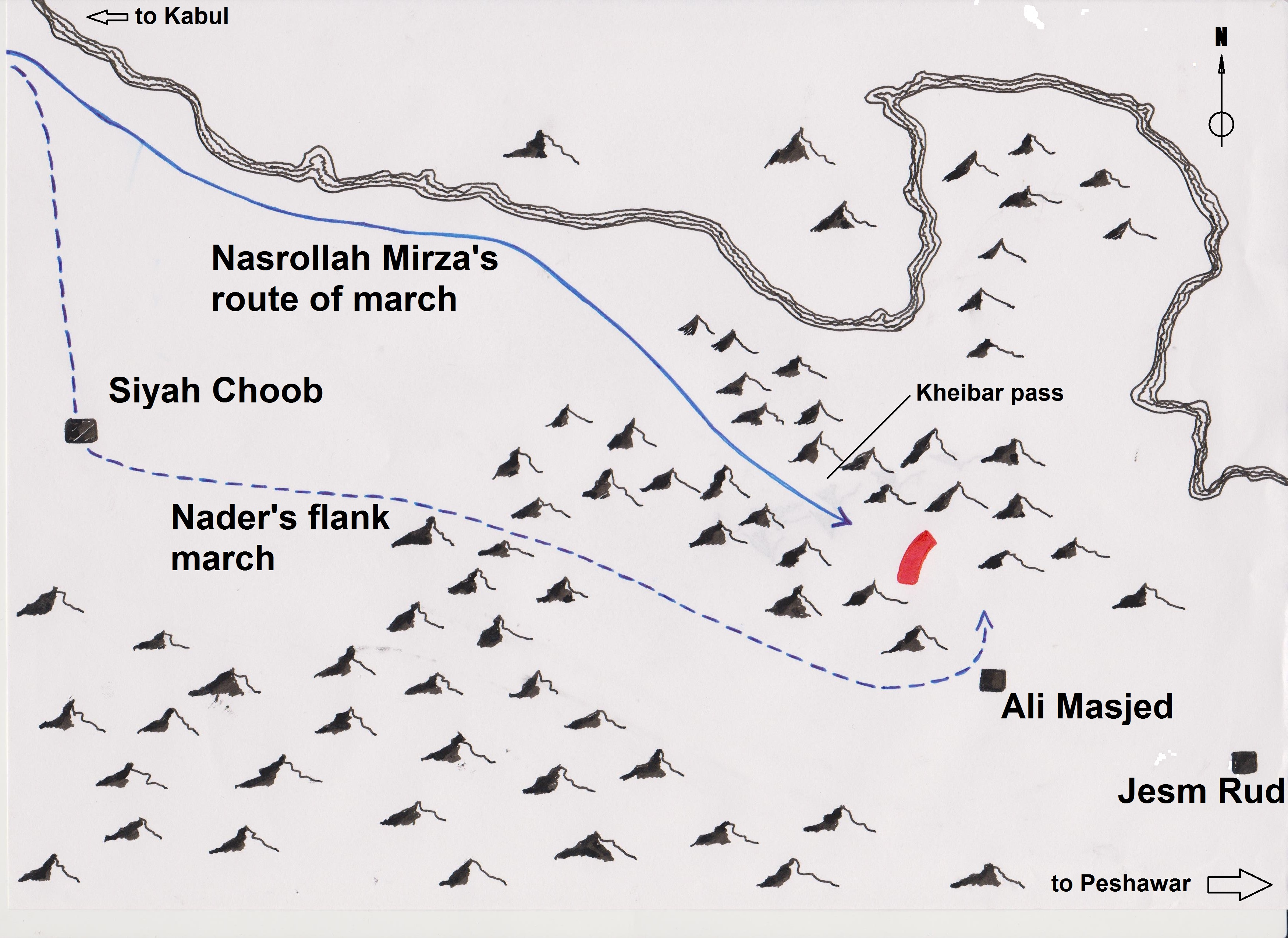 fsjafhhdffh